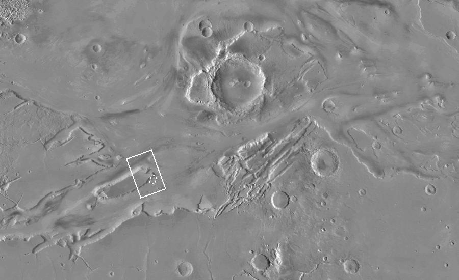 Mars Global Surveyor Mars Orbiter Camera Mars Orbiter Camera (MOC) High Resolution Images: Exhumed Crater in Kasei Valles (A) Regional context of the Viking 1 Orbiter and Mars Global Surveyor images shown below in (B) and (C), respectively. The Viking 1 image is represented by the large white box, the Mars Global Surveyor image is represented by the small white box. The area shown here includes the a portion of the Kasei Vallis outflow channel system. The large crater in the upper center of this context scene is 95 kilometers (59 miles) in diameter and is named Sharonov (after Russian astronomer, V.V. Sharonov (1901-1964)). The small white box is centered at 24.3°N, 61.5°W. This is a mosaic of Viking Orbiter images compiled by the U.S. Geological Survey. North is up.